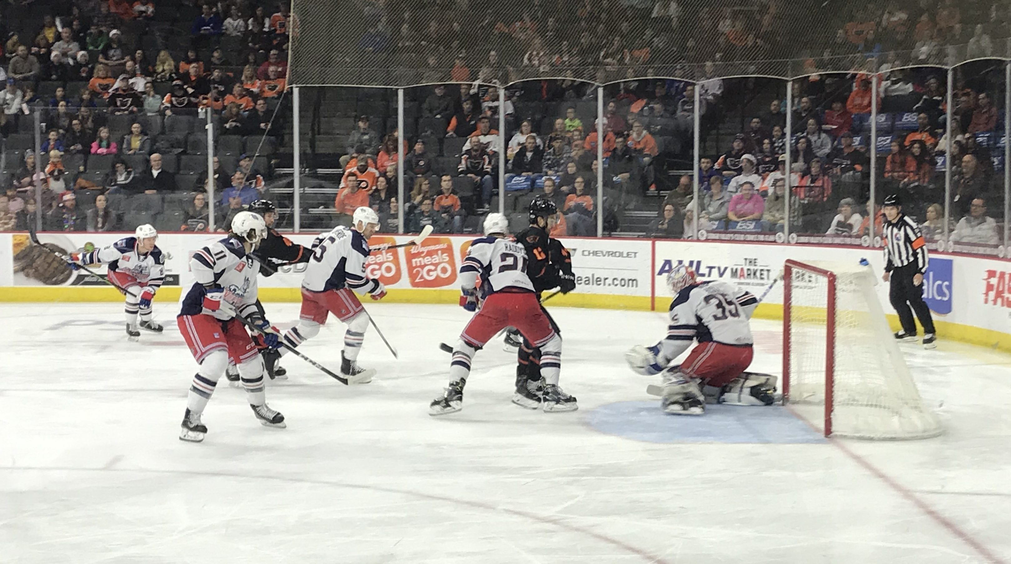 A game between the Lehigh Valley Phantoms and the Hartford Wolf Pack at the PPL Center in Allentown, Pennsylvania, on December 14, 2019.